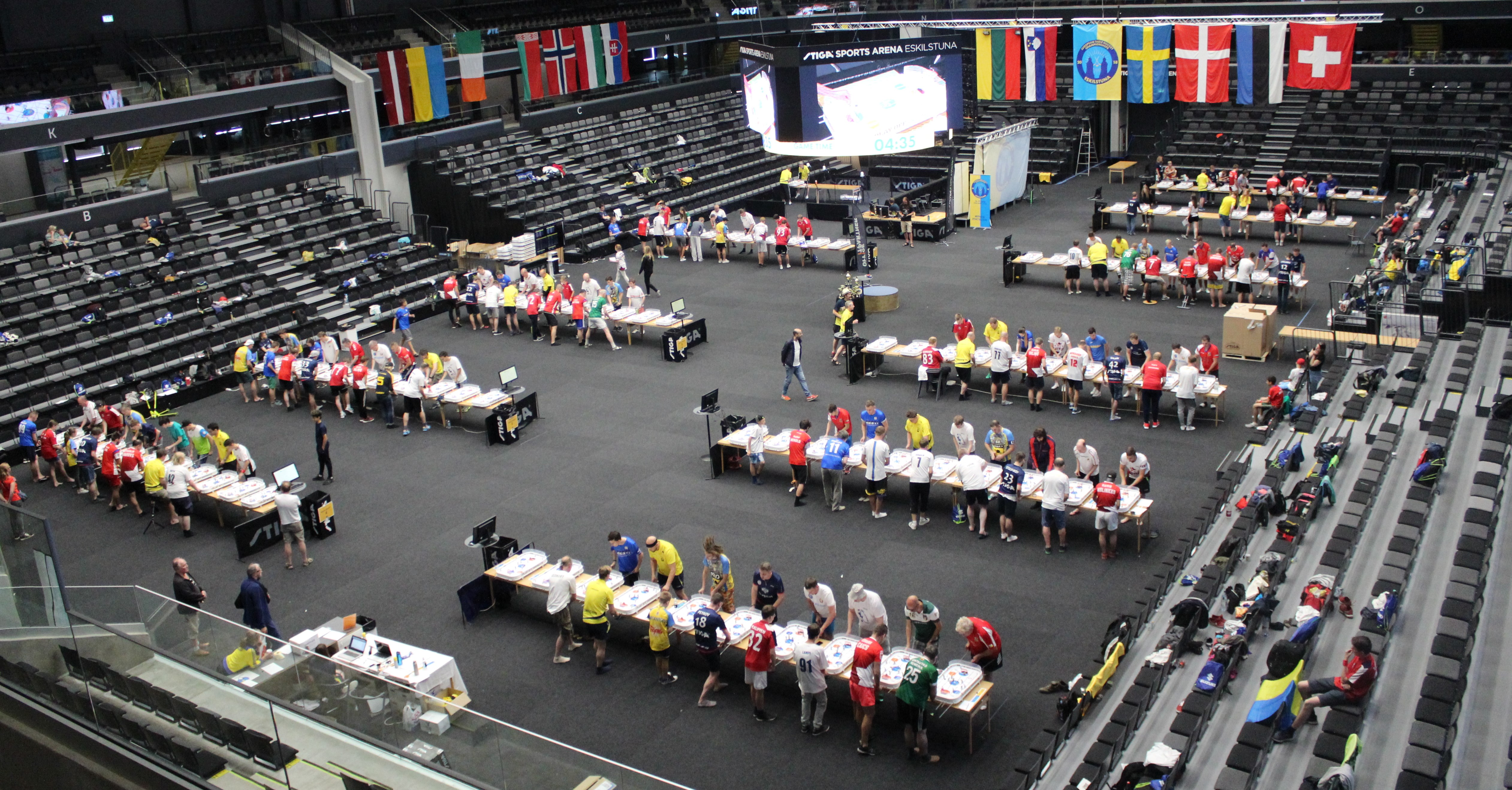 European Table Hockey Championship in STIGA Sports Arena Eskilstuna (SE), 2018.